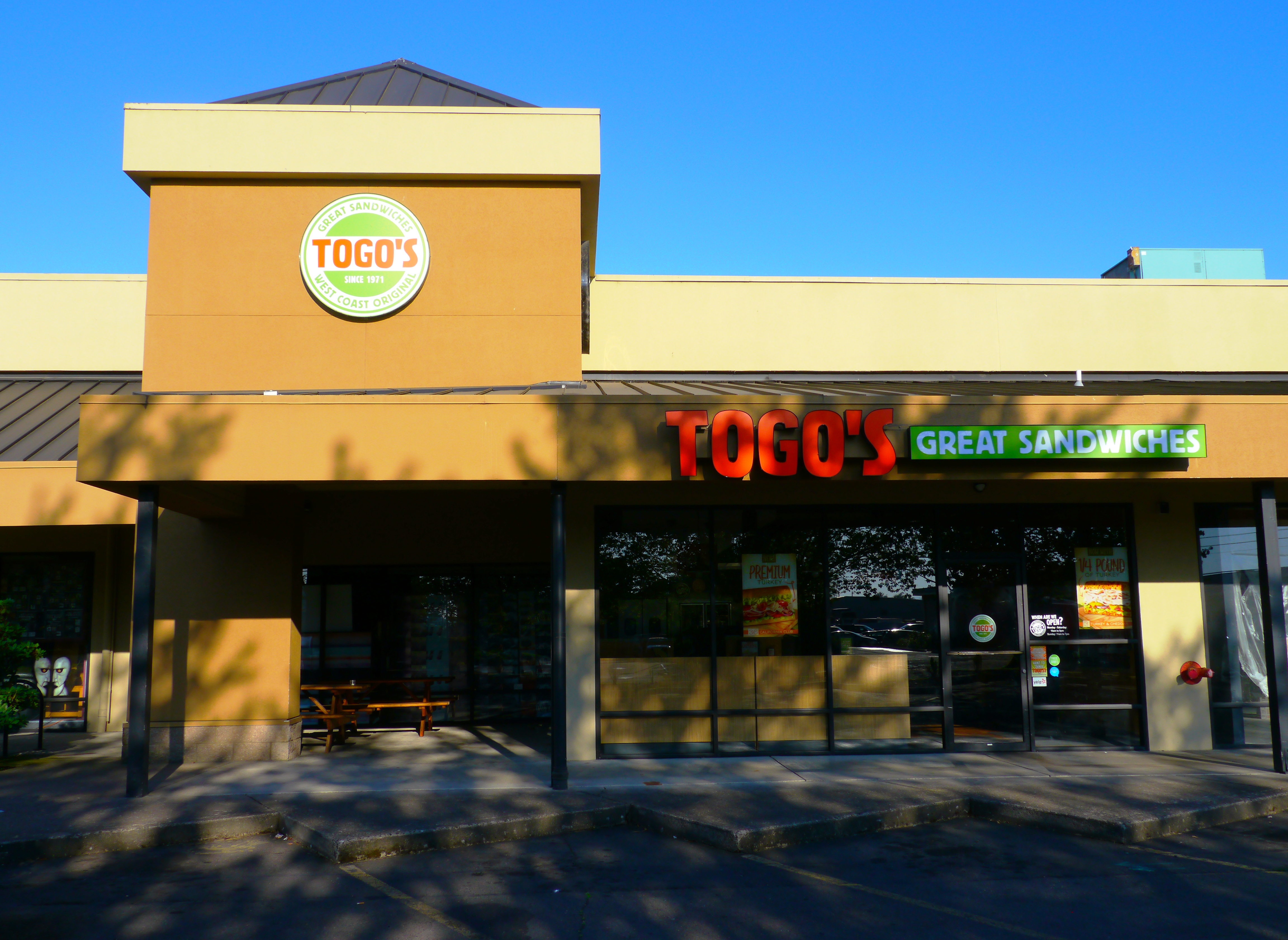 This TOGO's sandwich shop is located at the northwest corner of 11th Avenue and Seneca Road in Eugene, Oregon.